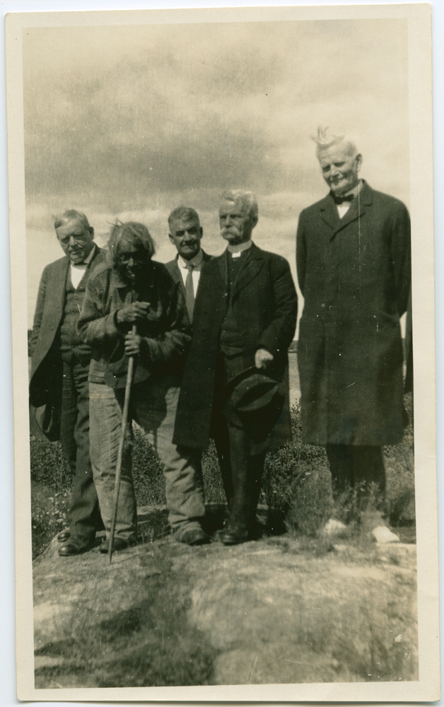 Rev. T. Ferrier, Rev. J.T. Blackford?, Rev. J. Maclean, and Rev. S.D. Chown standing with John Memeno, the last Cree Indian to remember James Evans, Norway House, Manitoba